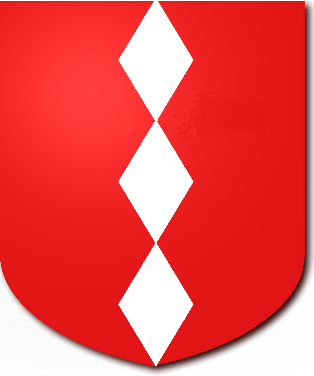 Arms of the family of Statham or Stathum, later of Morley, in Derbyshire Blazon: gules, a pale lozengy argent